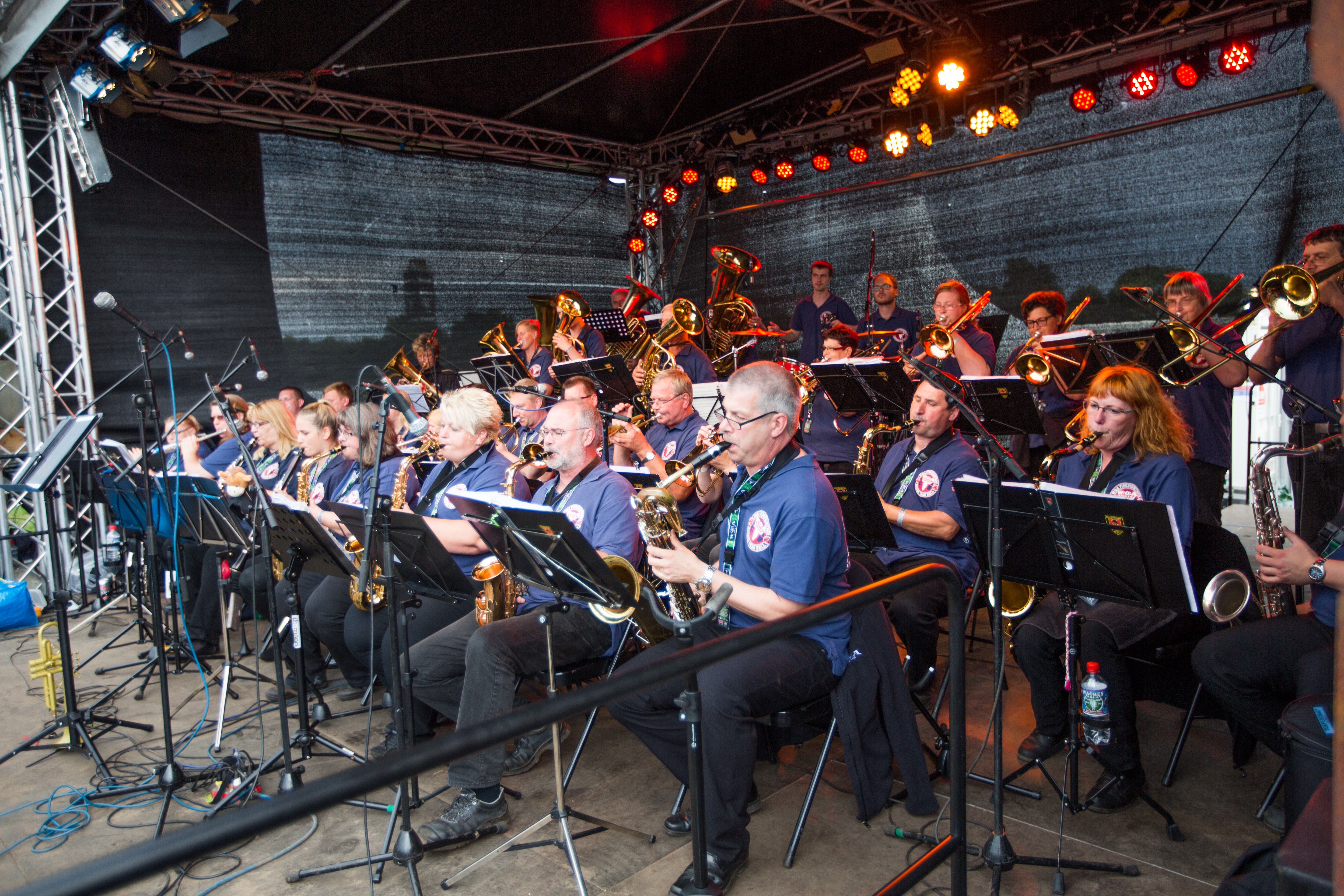 Musicians of volunteer fire department Wacken (Germany) at Wacken Open Air 2016